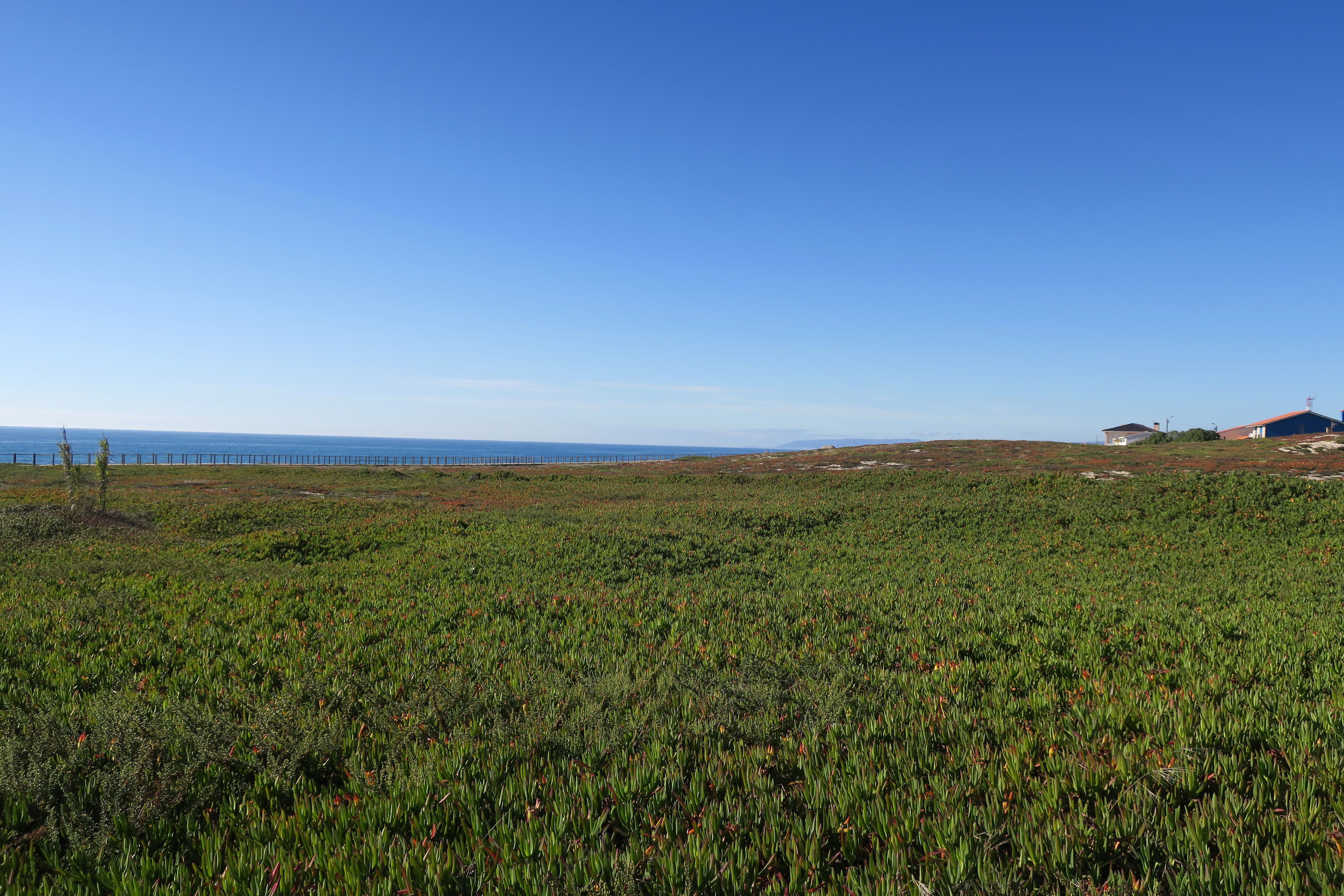 coastal dune system in Santo André Beach